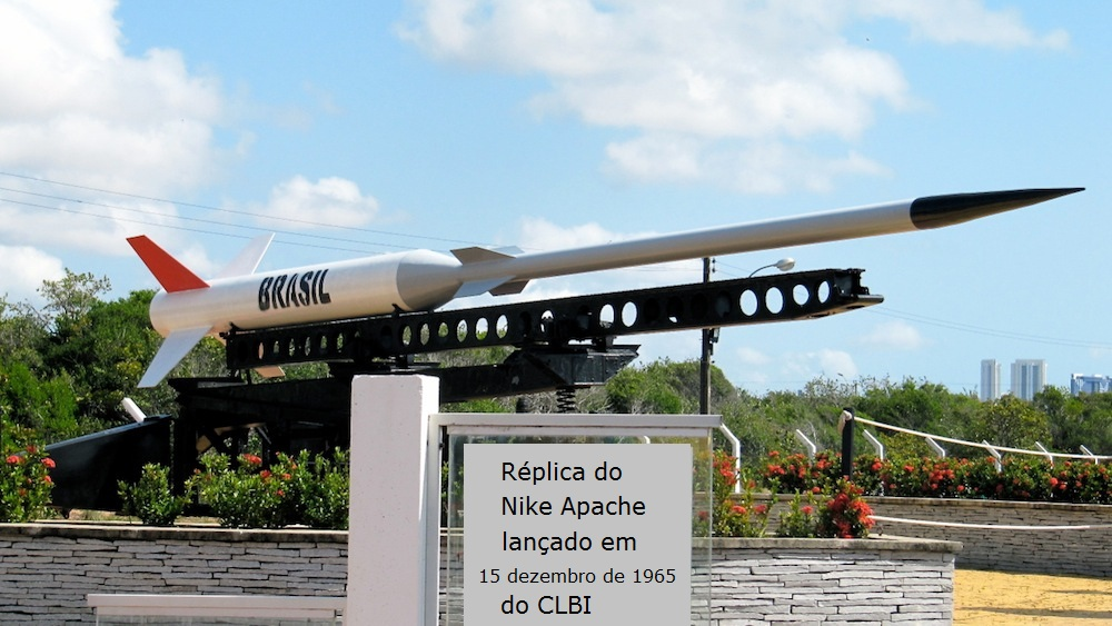 Uma réplica do primeiro foguete lançado do Centro de Lançamento da Barreira do Inferno em 15 dezembro de 1965, um Nike Apache.